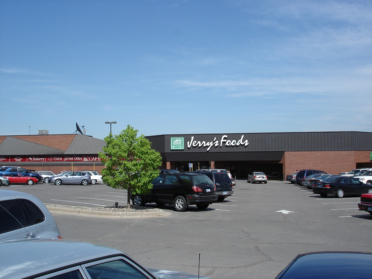 A Jerry's Foods in Edina, Minnesota. I took this on June 12, 2006.